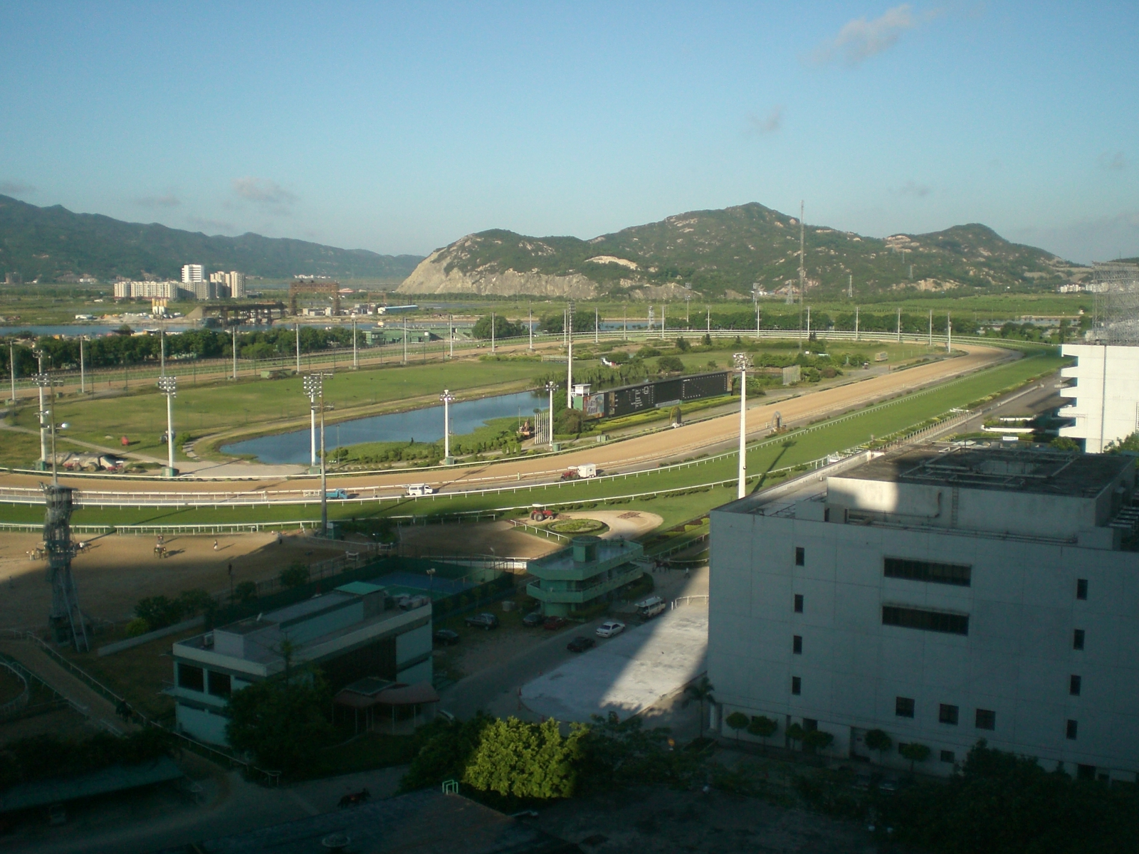 Macau Jockey Club, Taipa, 澳門賽馬會, 氹仔 Author= Mo707